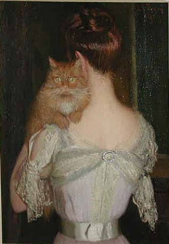 Woman with Cat